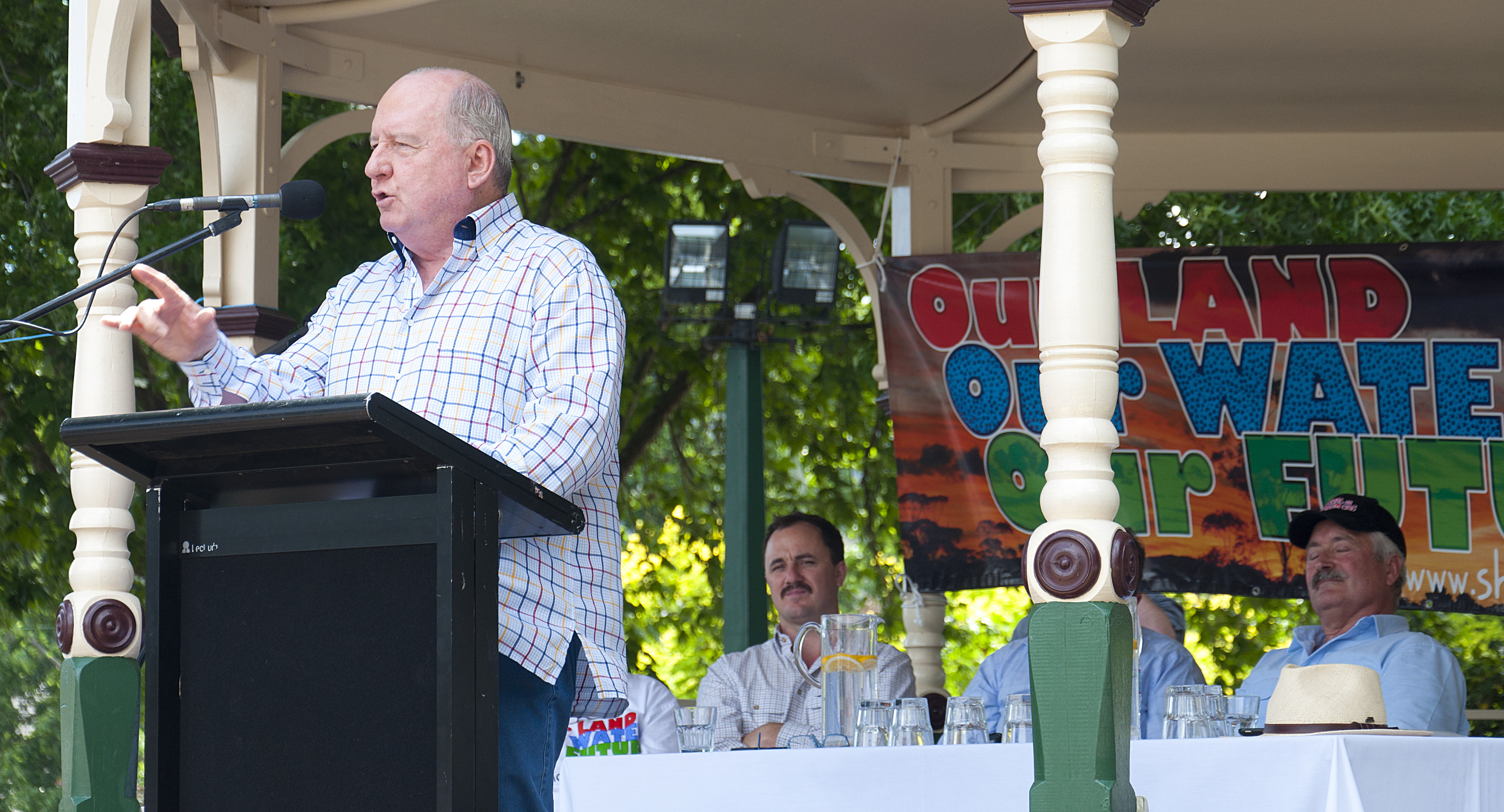 Broadcaster Alan Jones addresses the crowd. Over 1,000 people rallied in Bowral to oppose coal and coal seam gas in the Southern Highlands of NSW.